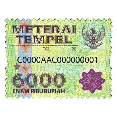 Indonesian stamp duty